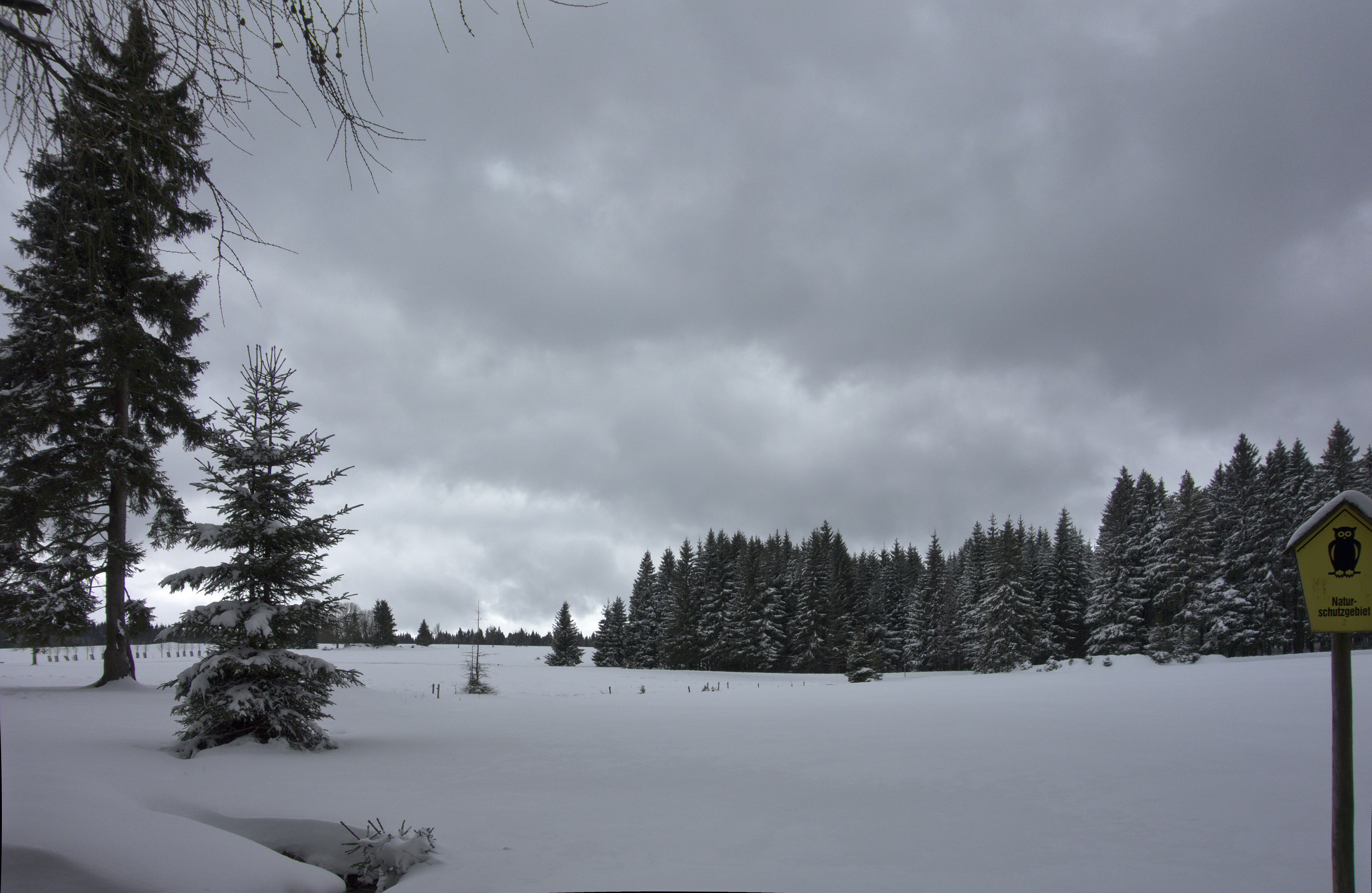 part of Nature Reserve "Halbmeiler Wiesen" in winter